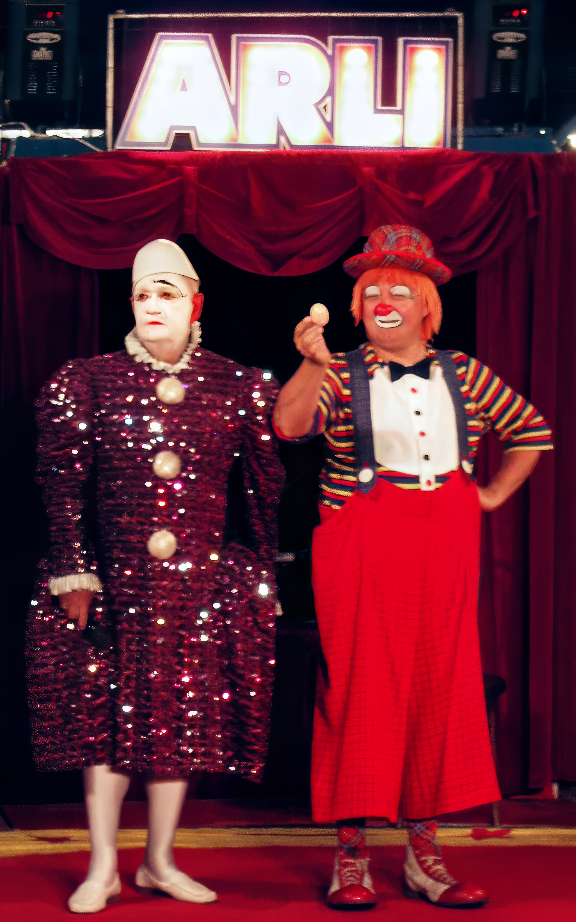 French Clown and “Auguste” Clown from the Danish “Arli Circus” (2006)